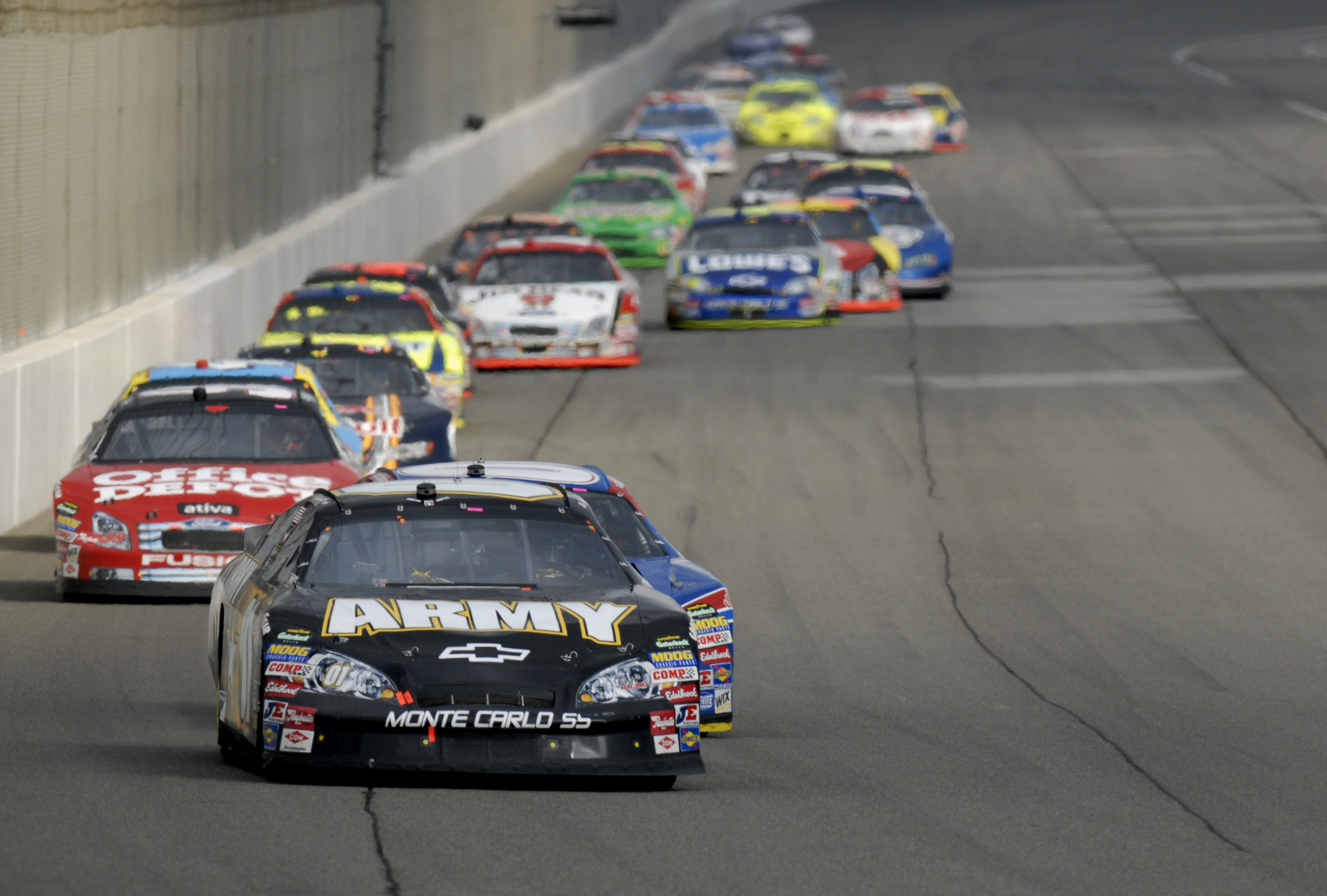 army.mil U.S. Army driver Mark Martin left California Speedway leading the Nextel Cup driver point standings after posting a fifth-place finish in Sunday's Auto Club 500.army.mil-2007-02-26-080414 copy